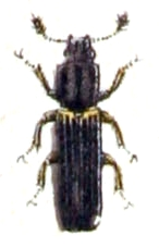 Colydium filiforme, from Calwer's Käferbuch, Table 14, Picture 31. Taxonomy was updated to 2008, using mostly the sites Fauna Europaea and BioLib. Please contact Sarefo if the determination is wrong!